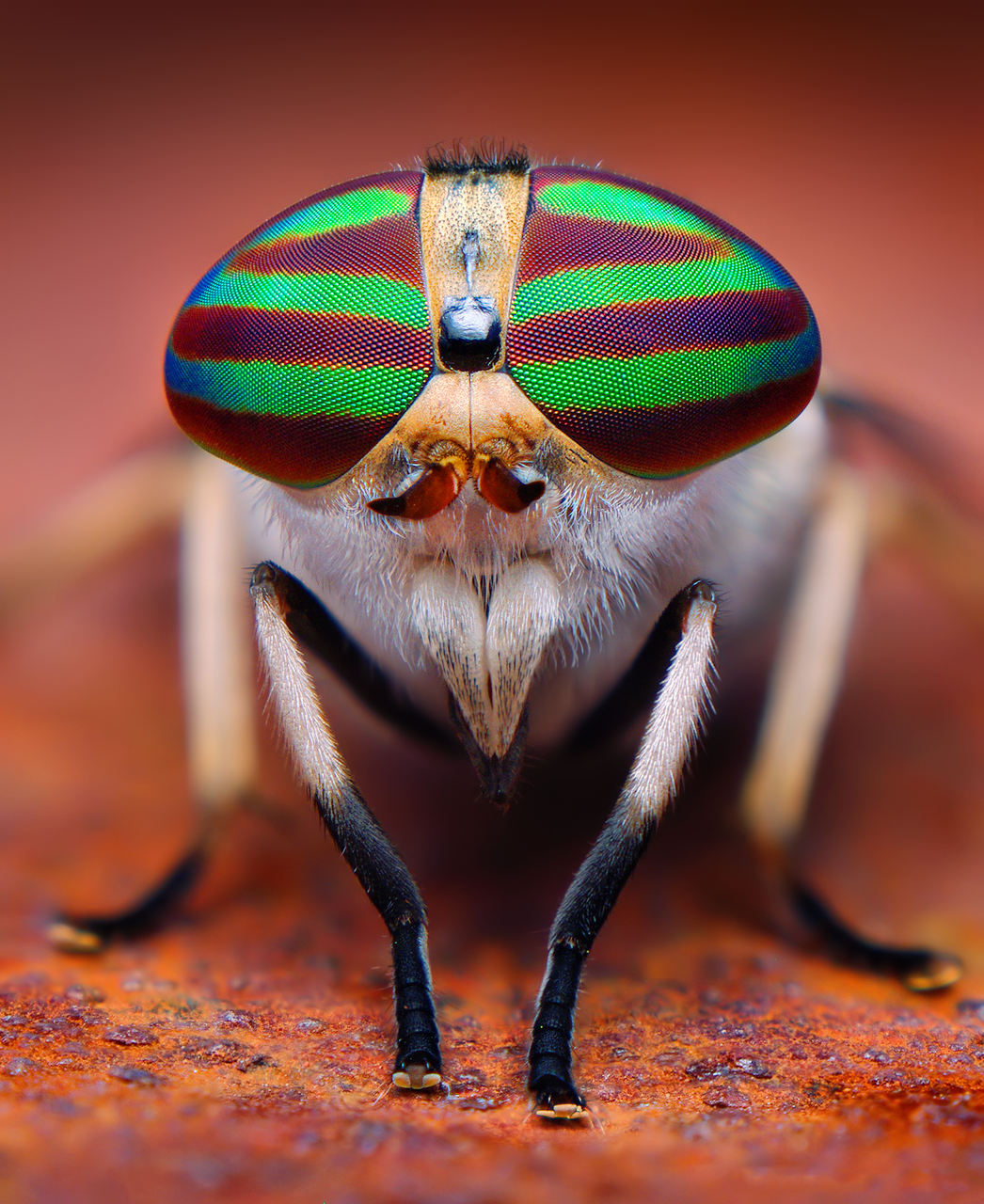 Female Striped Horse Fly (Tabanus lineola)